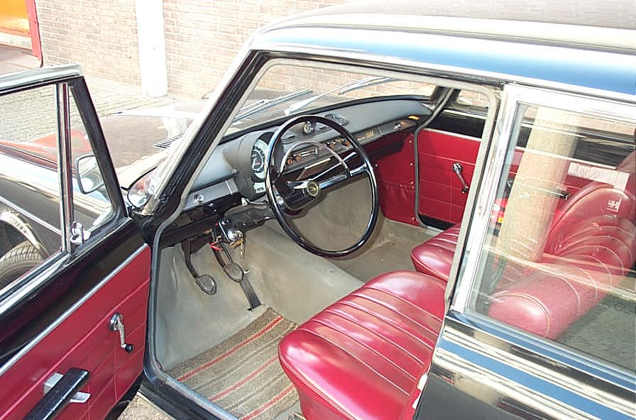 Interior of a 1964 Simca 1500 saloon, black, interior in red fake leatherFirst registered 1964, 85.408 km at the time the photo was taken The vehicle was on sale at the Garage de l'Est at the time the image was uploaded